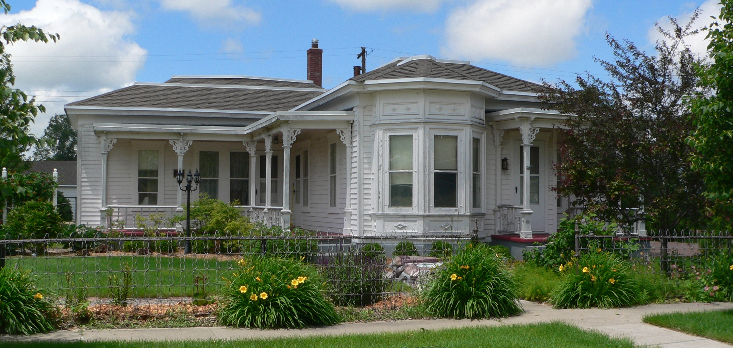 Sturdevant-McKee Museum in Atkinson, Nebraska; seen from the east. The Queen Anne house was built in 1887. It is listed in the National Register of Historic Places.